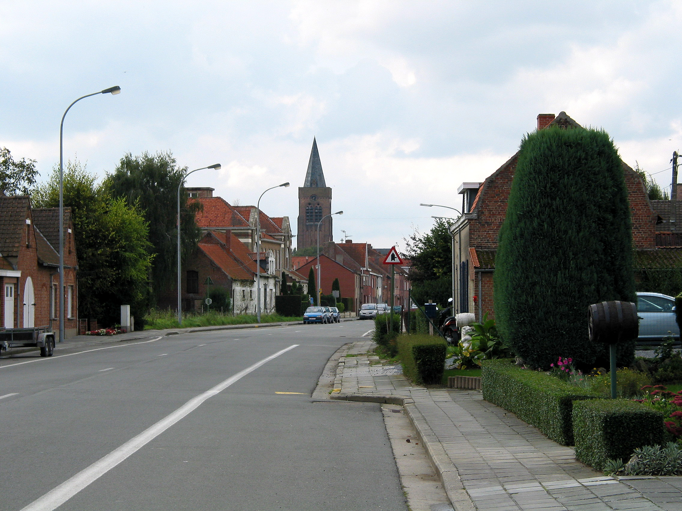 Ploegsteert (Belgium), the street of Ploegsteert.